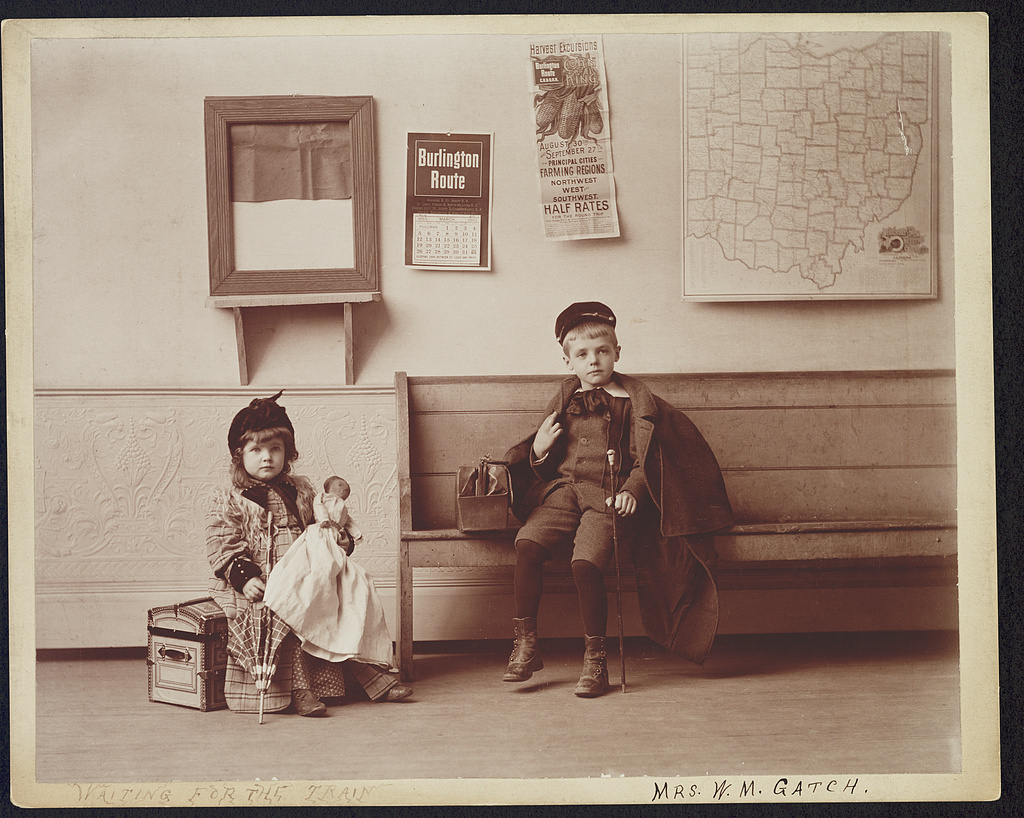 Photograph shows boy and girl in train station; the boy sits on a bench wearing a large cape,holding a walking stick; the girl sits on a small trunk holding a doll and parasol.